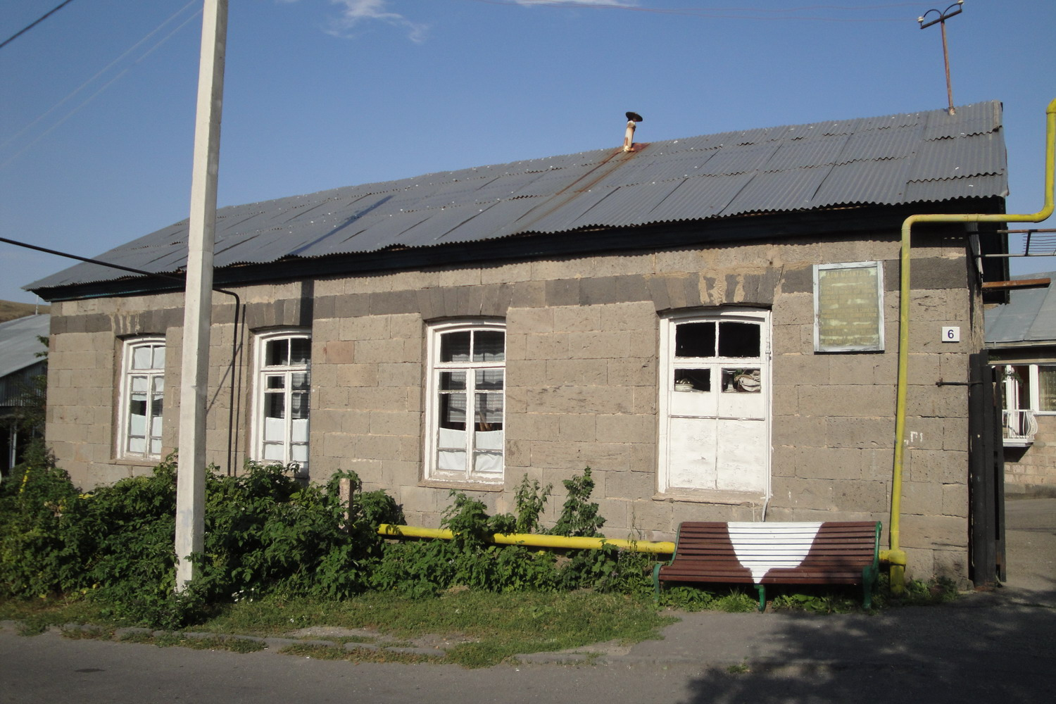 Tabernacle house of molokans in Tsaghkadzor